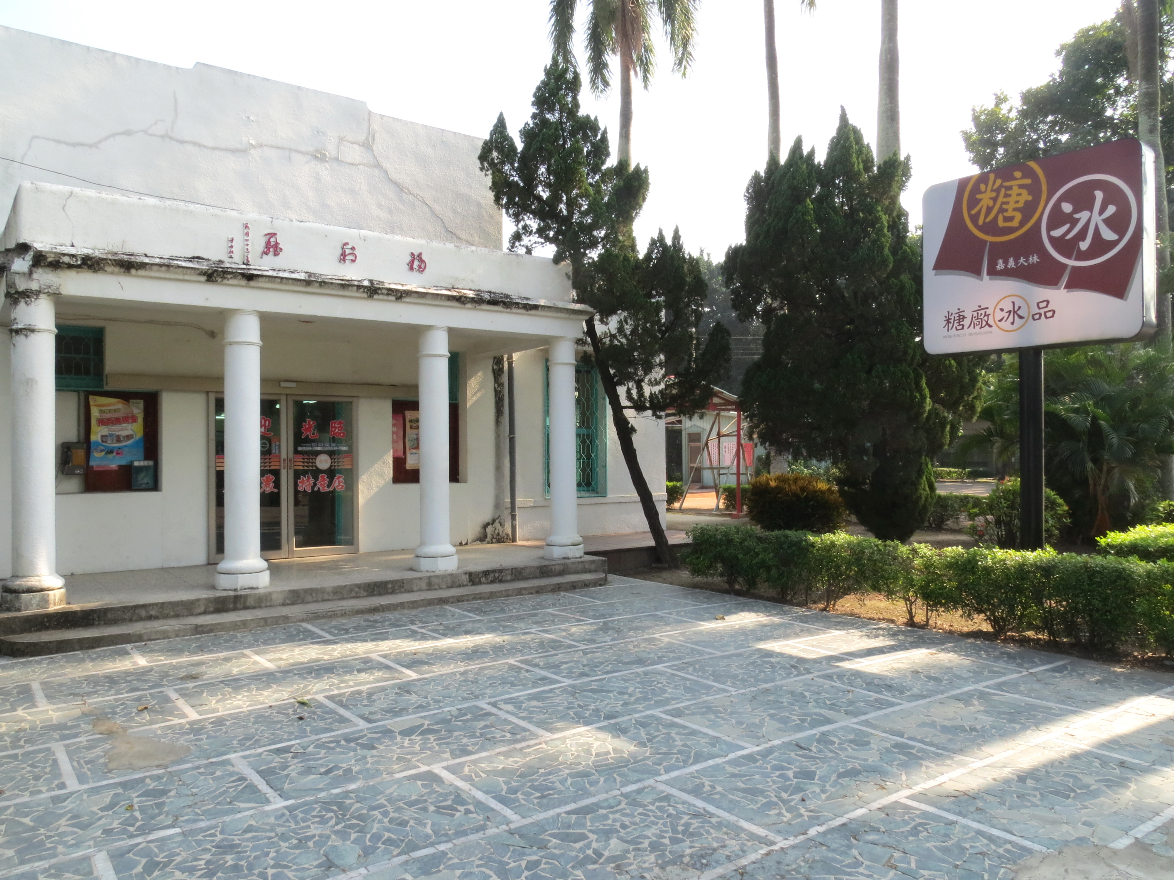 Nanjing Sugar Factory, Taiwan Sugar Corporation, Dalin, Chiayi,Taiwan.